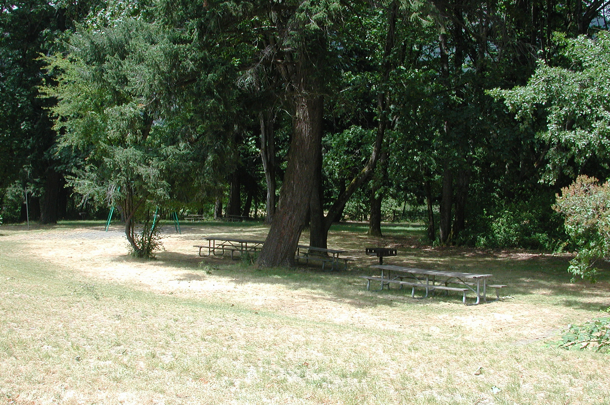 Picnic area at Viento State Park along Interstate 84 west of Hood River, Oregon. View is to the north from the picnic area parking lot.